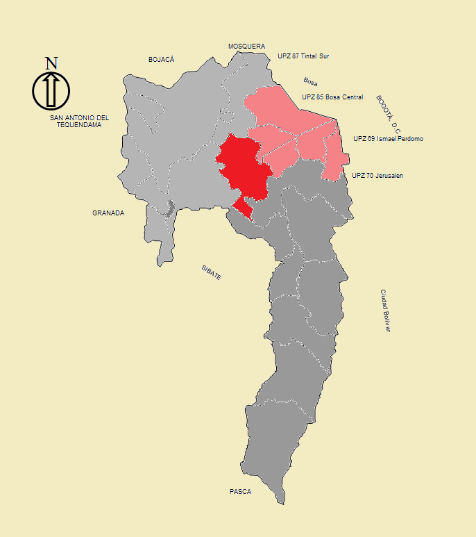 Commune 1 Compartir map, Municipality of Soacha (department of Cundinamarca, Colombia)